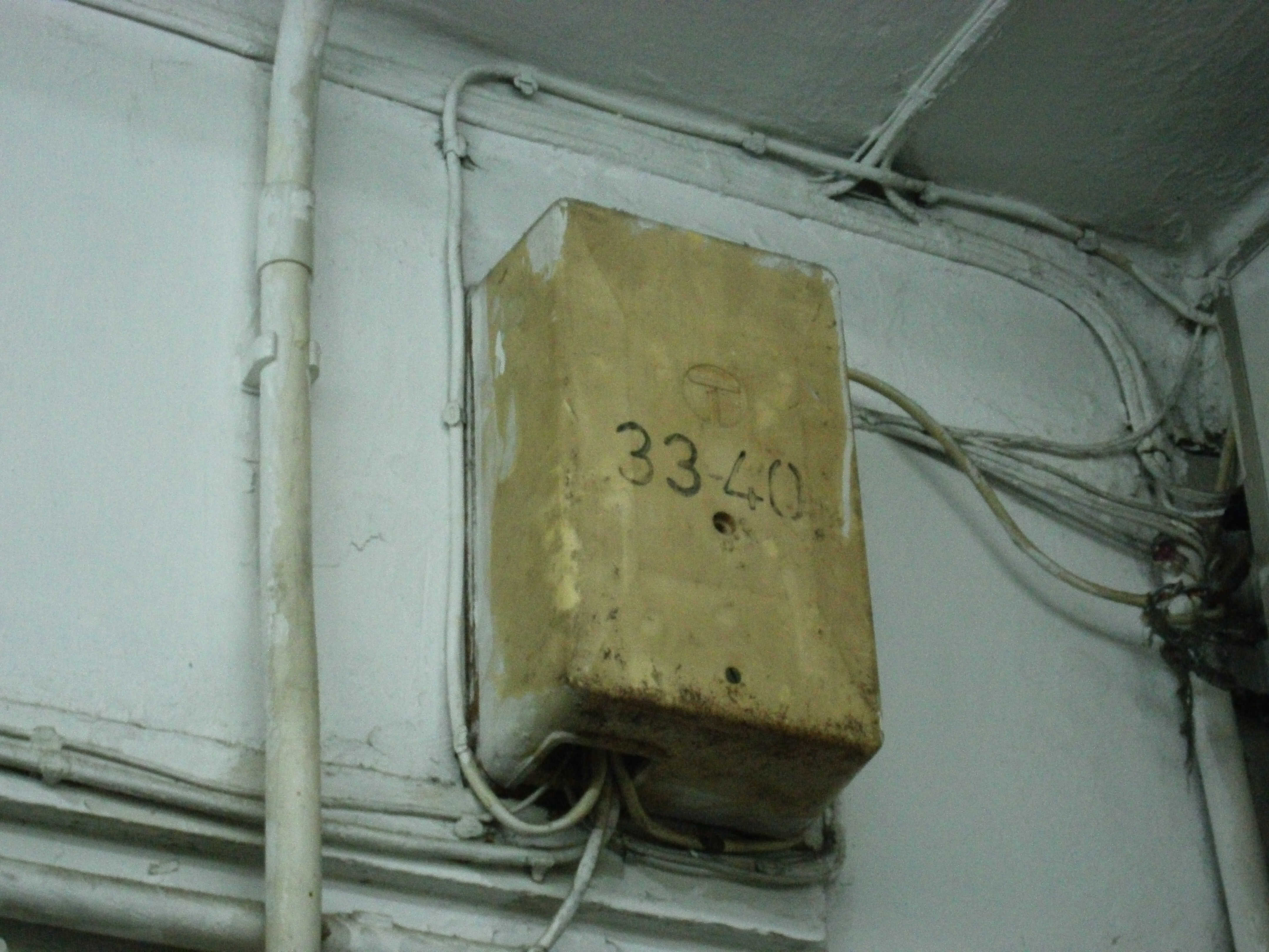 Hkt distribution box